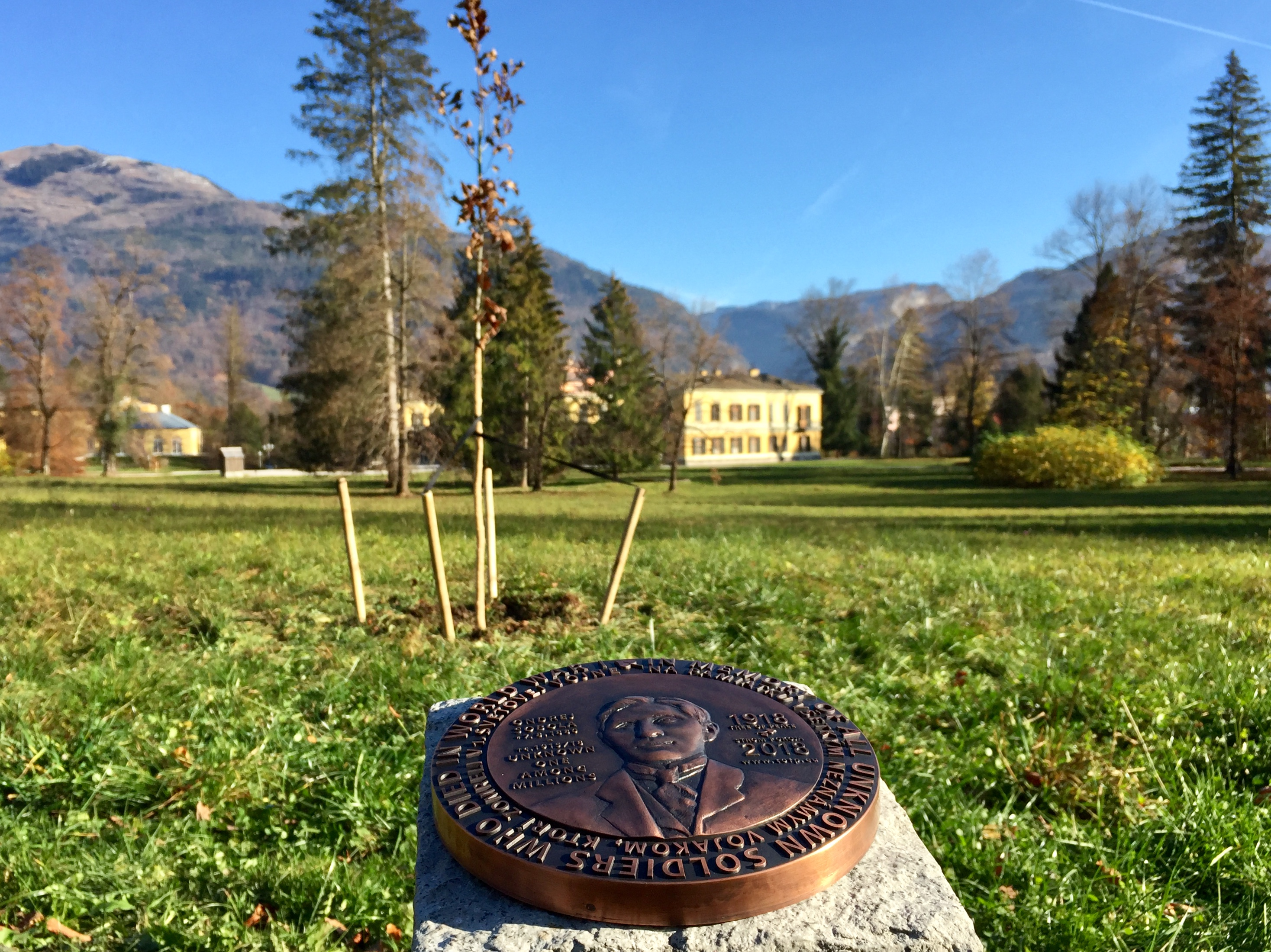 Kaiservilla, Imperial Park, Bad Ischl, The Tree of Peace with Memorial Plaque (Ondrej Sobola)